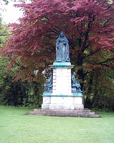 Endcliffe Park, Sheffield.